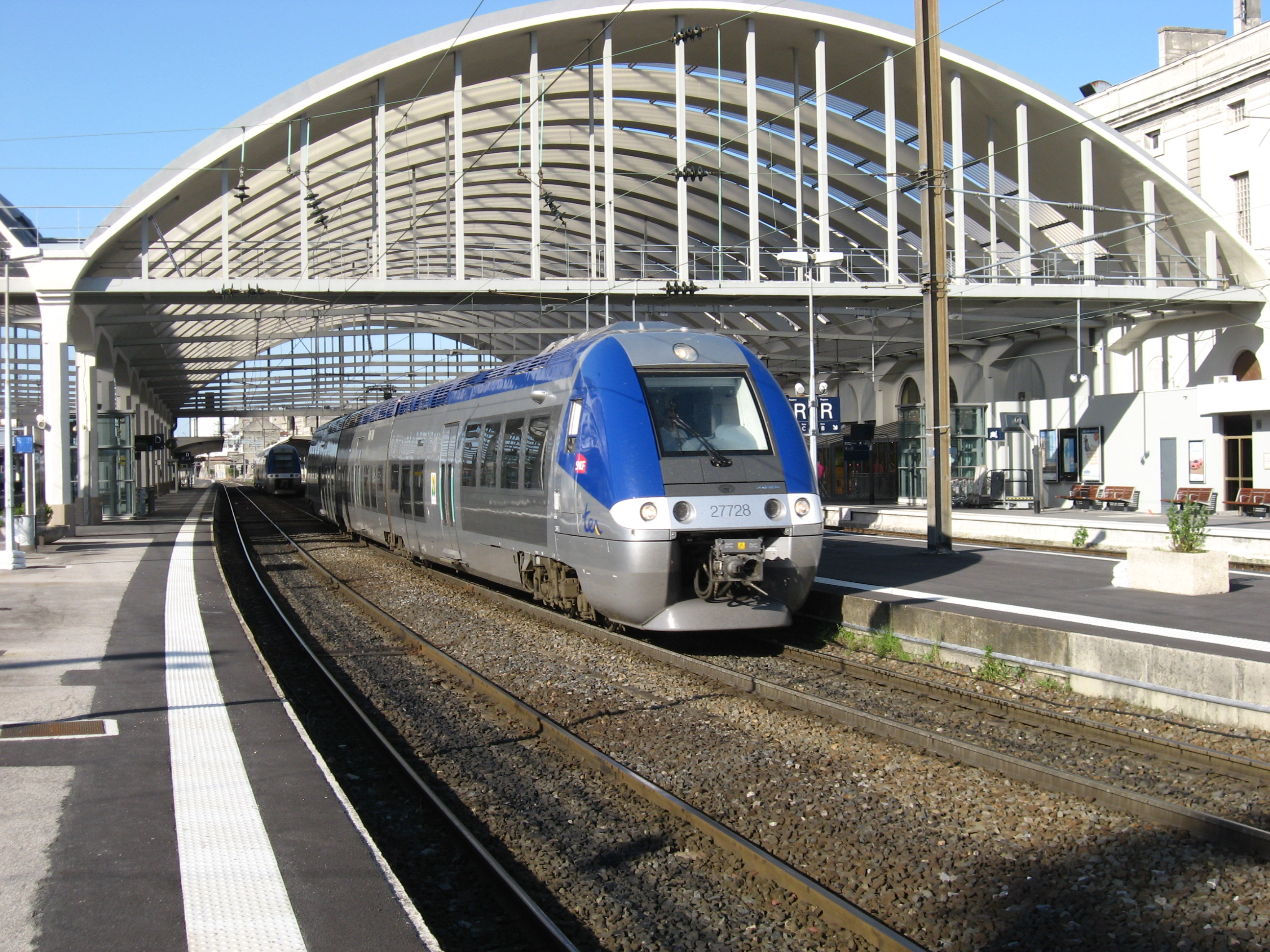 Station Reims with TER train Z 27728